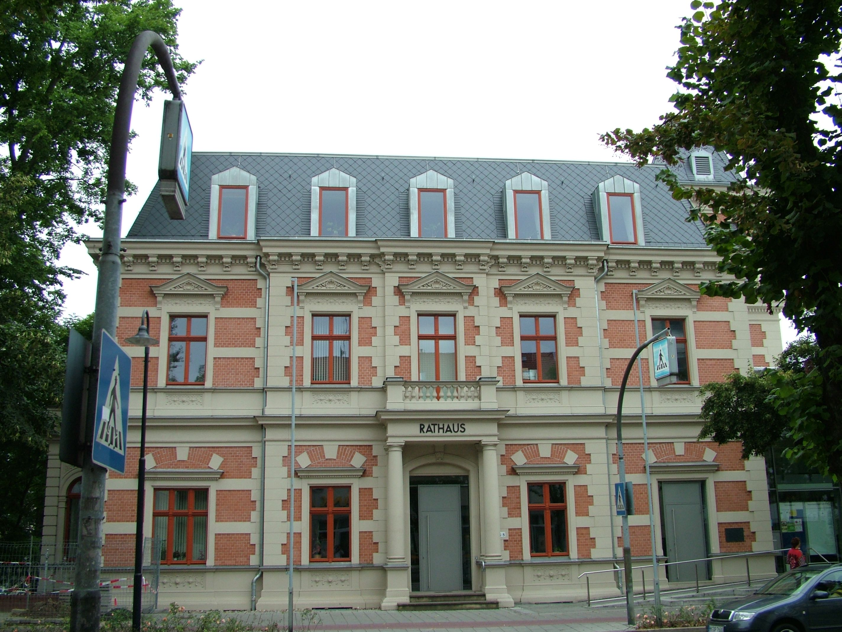 The town hall of Erkner, Brandenburg, Germany.